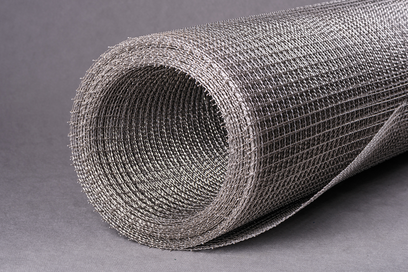 Crimped wire mesh 20x2 in roll